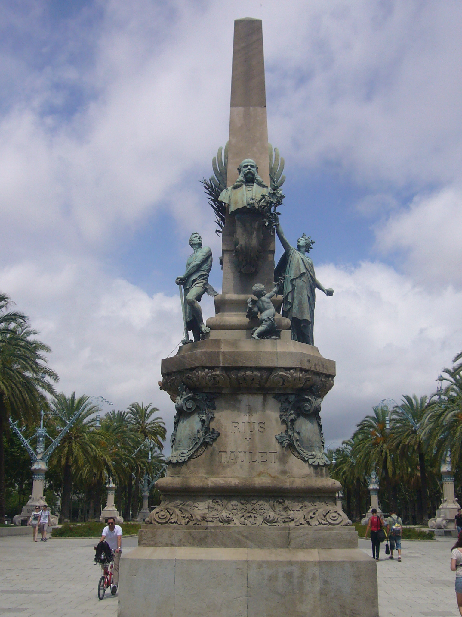 Monument a Rius i Taulet, Barcelona